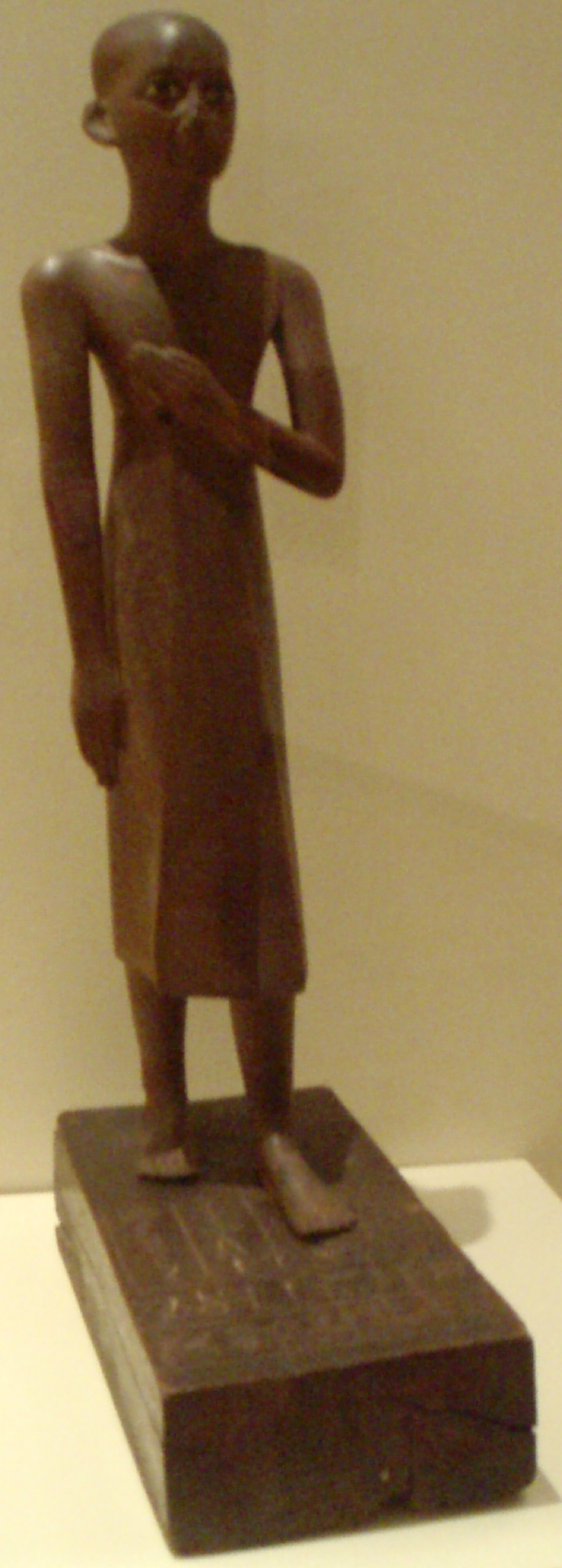 Tomb figure of Iby-ref, a 12th dynasty provincial administrator. Made of wood with inlaid eyes, circa 1800 BC. Elbow and foot have been restored.